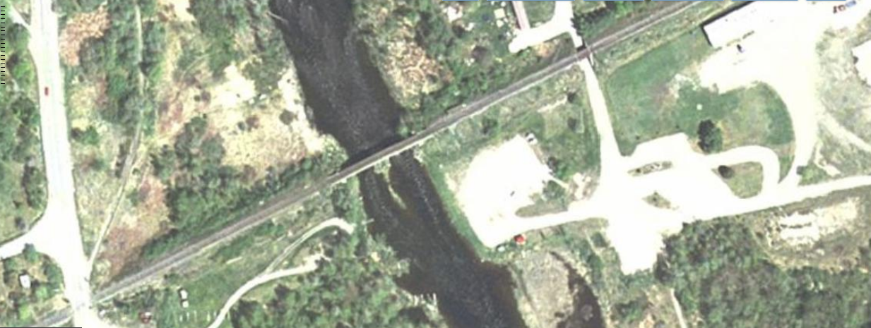 Saint Croix-Vanceboro Railway Bridge, seen by a USGS satellite.